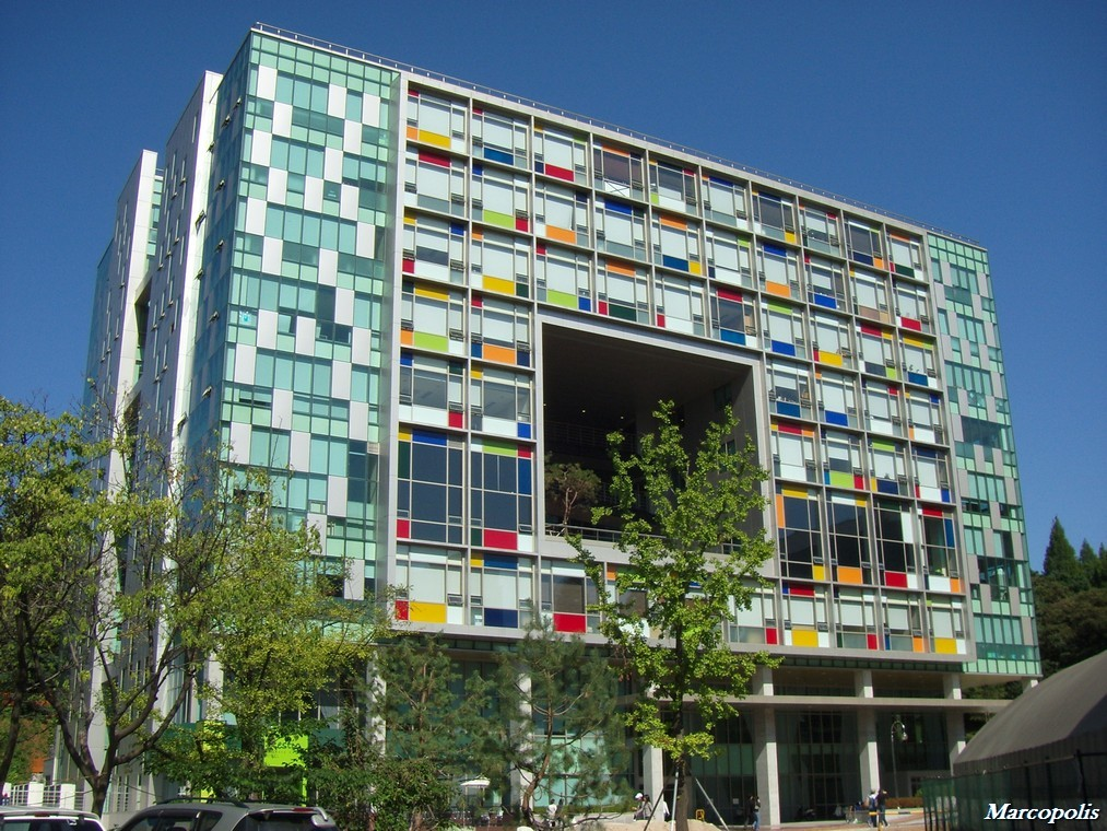 Konkuk University Campus